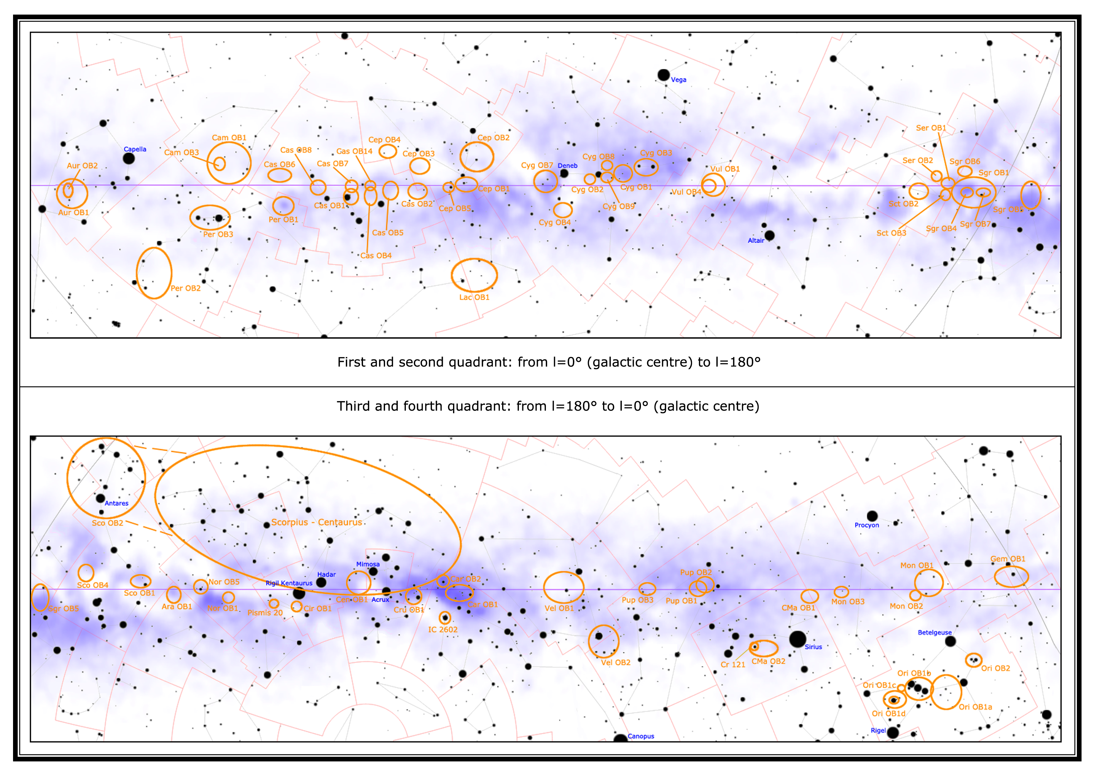 Sky Map 7 - Paper 29 Basic map taken from software Perseus, all rights belong to the author who takes the screen (as written in Copyright file). Arranged with deep-sky objects and name of stars and objects.